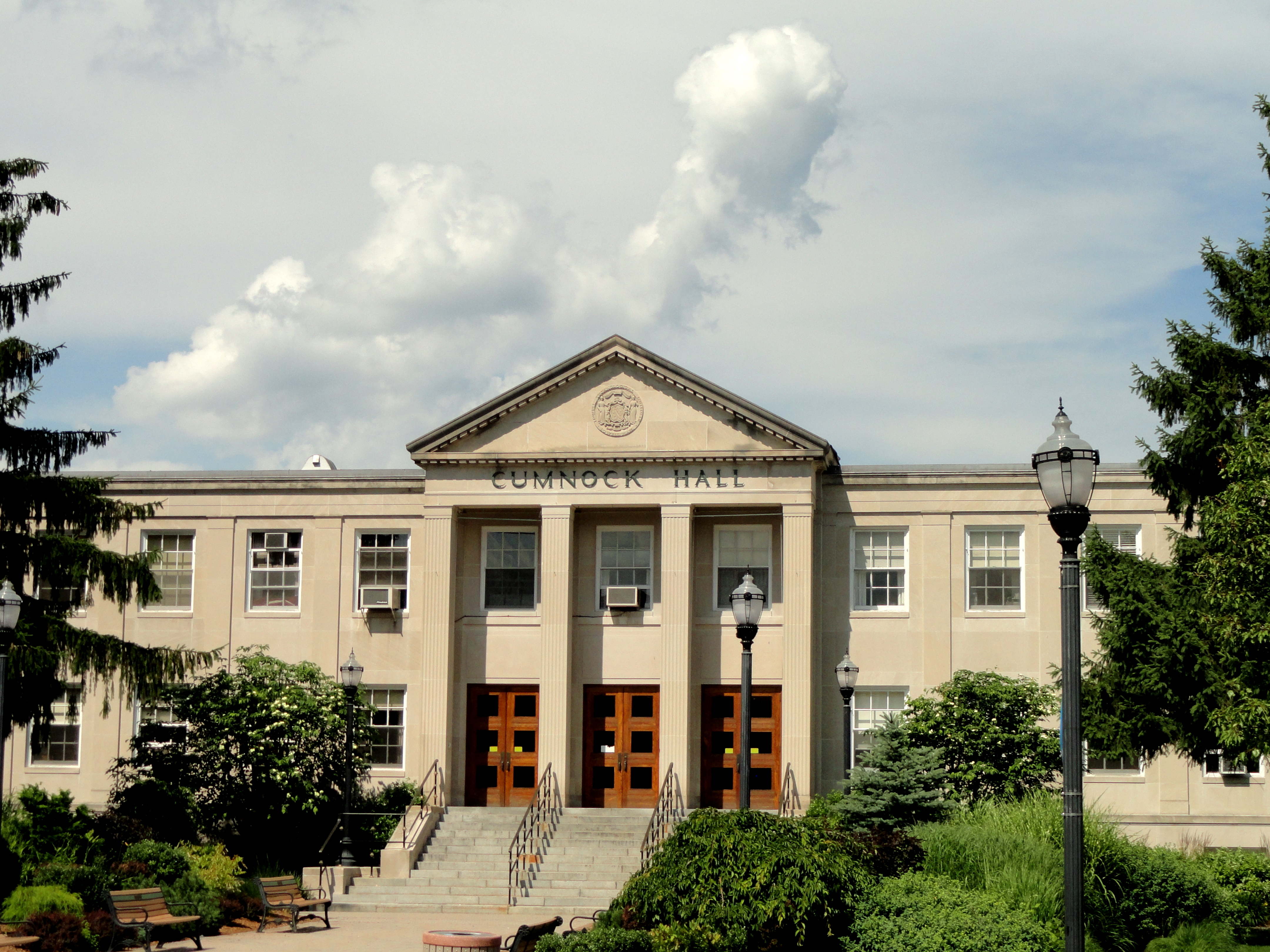 View of University of Massachusetts Lowell, Lowell, Massachusetts, USA.